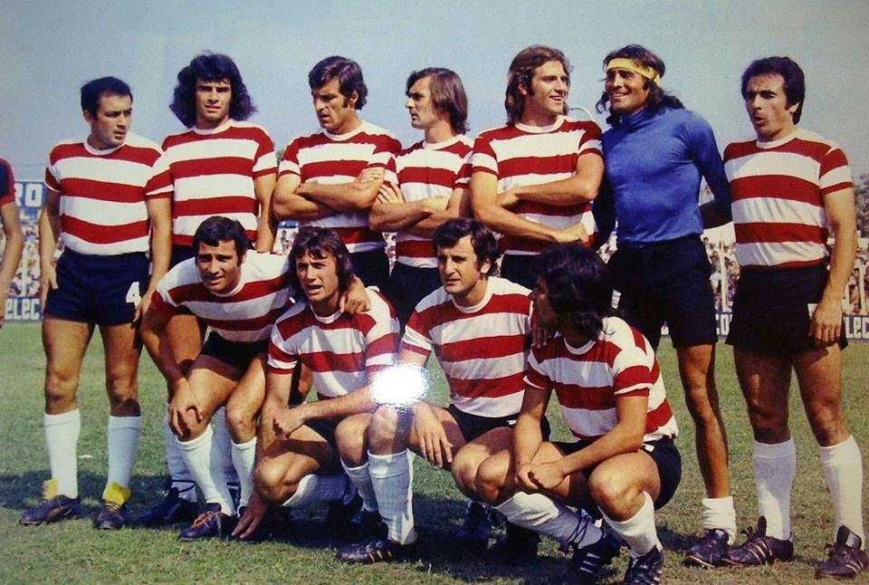 Team of Unión de Santa Fe. Players are: (up): Pablo Zuccarini, Víctor Bottaniz, Baudilio Jauregui, Rubén Suñé, Alcides Merlo, Hugo Gatti, Carlos Trullet (down): Ernesto Mastrángelo, Eduardo Marasco, Víctor Marchetti, Angel Fredes.